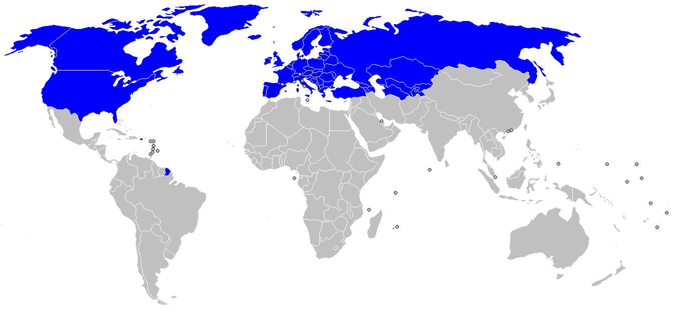 Map of the EAPC (include Bosnia-Herzegovina, Serbia, and Montenegro)